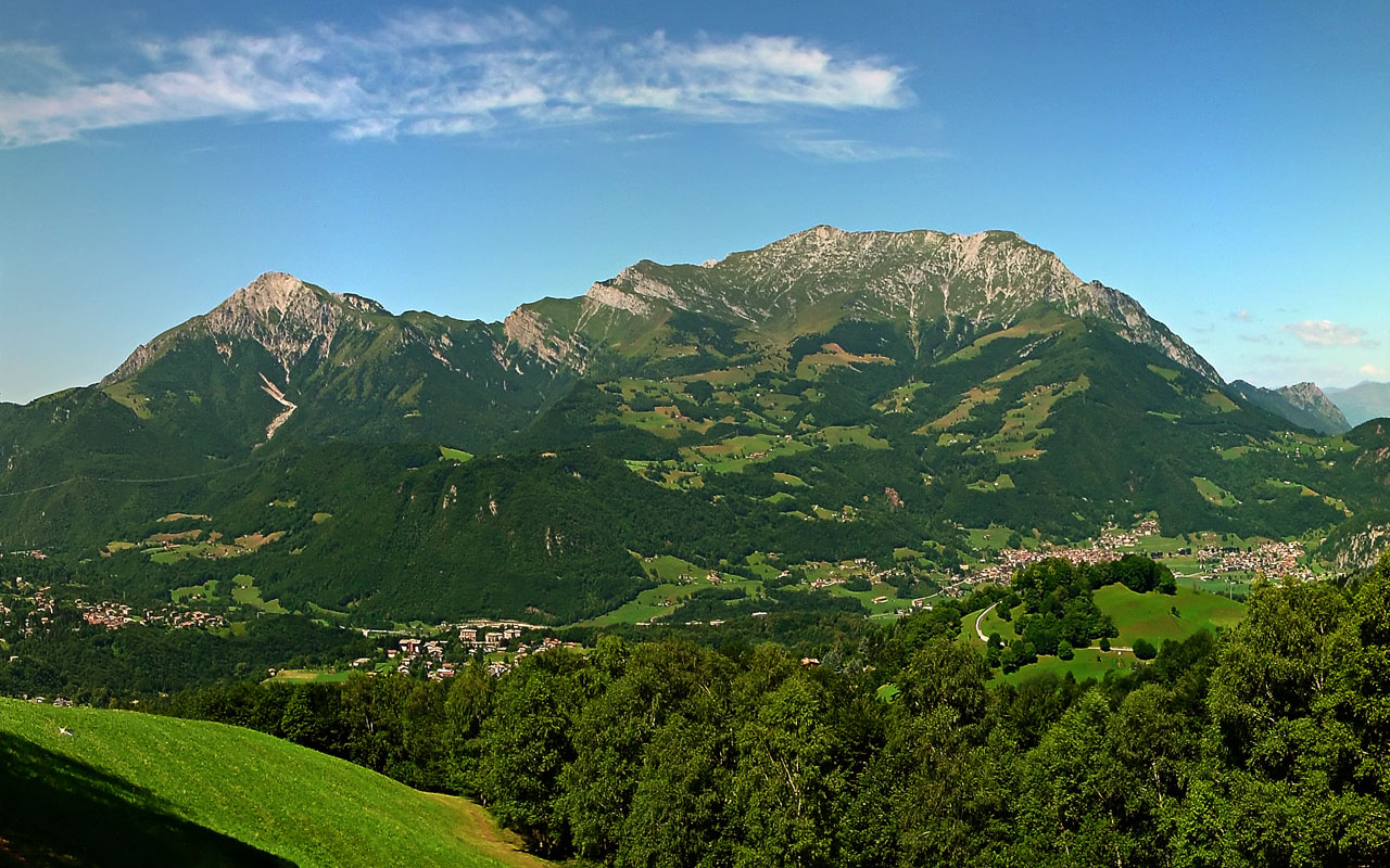 Grignetta (left) and Grigna seen from Moggio, Valsassina, Lombardy, Italy